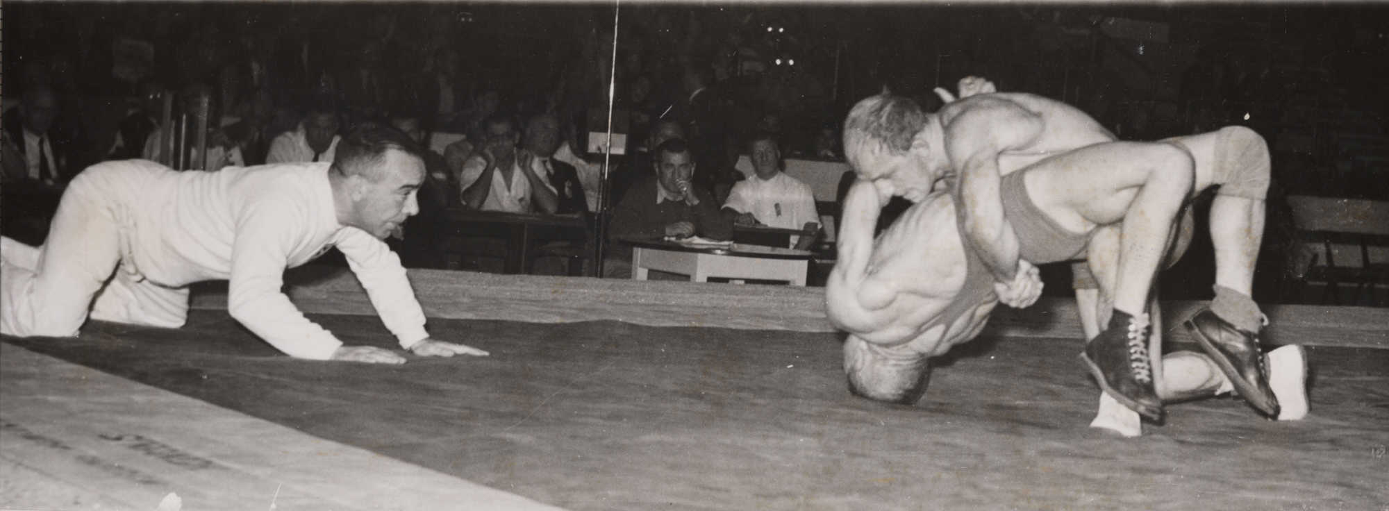 Wrestling at the Olympic Games, London, 1948. Anderberg of Sweden wins by a fall over Toth of Hungary in the Featherweight event of the Olympic Wrestling event at Earls Court. Daily Herald Archive at the National Media Museum